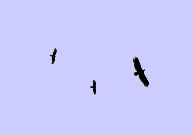 A White-tailed eagle mobbed by a pair of Buzzards, taken on the Isle of Canna in the Small Isles archipelago in Scotland